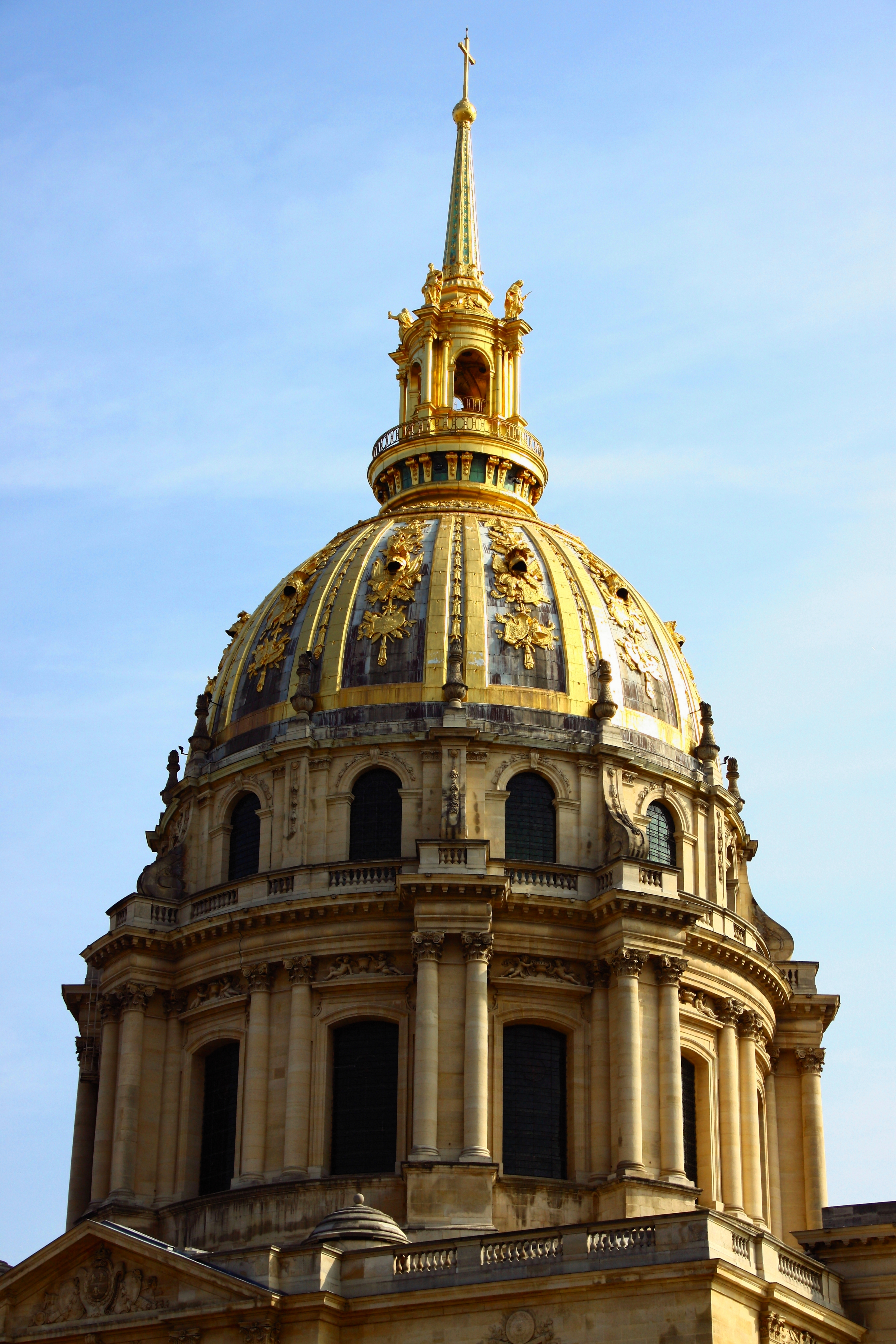 Photograph shot with a Canon EOS 50D with a EF-S 18-200 lens, aperture F1.3, 150 mm. Software DXO Optics Pro 5 used for enhancing the image. Photographie prise avec un Canon EOS 50D à objectif EF-S 18-200, ouverture F1.3, distance focale 150 mm. Logiciel DXO Optics Pro utilisé pour raviver l'image.